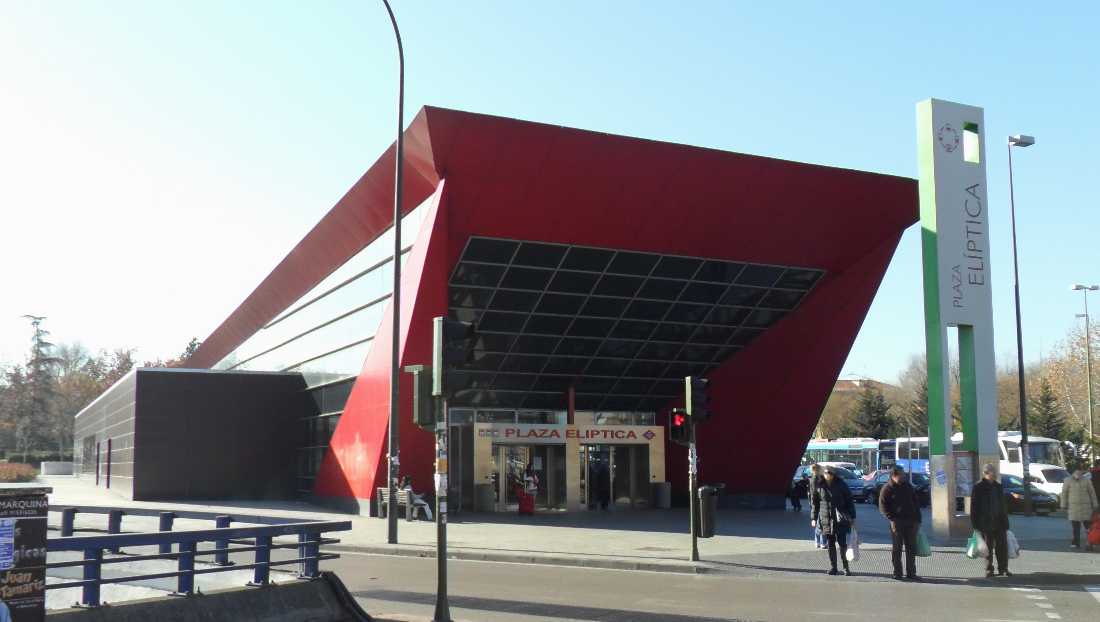 Entrance to Plaza Elíptica station in Madrid (Spain).